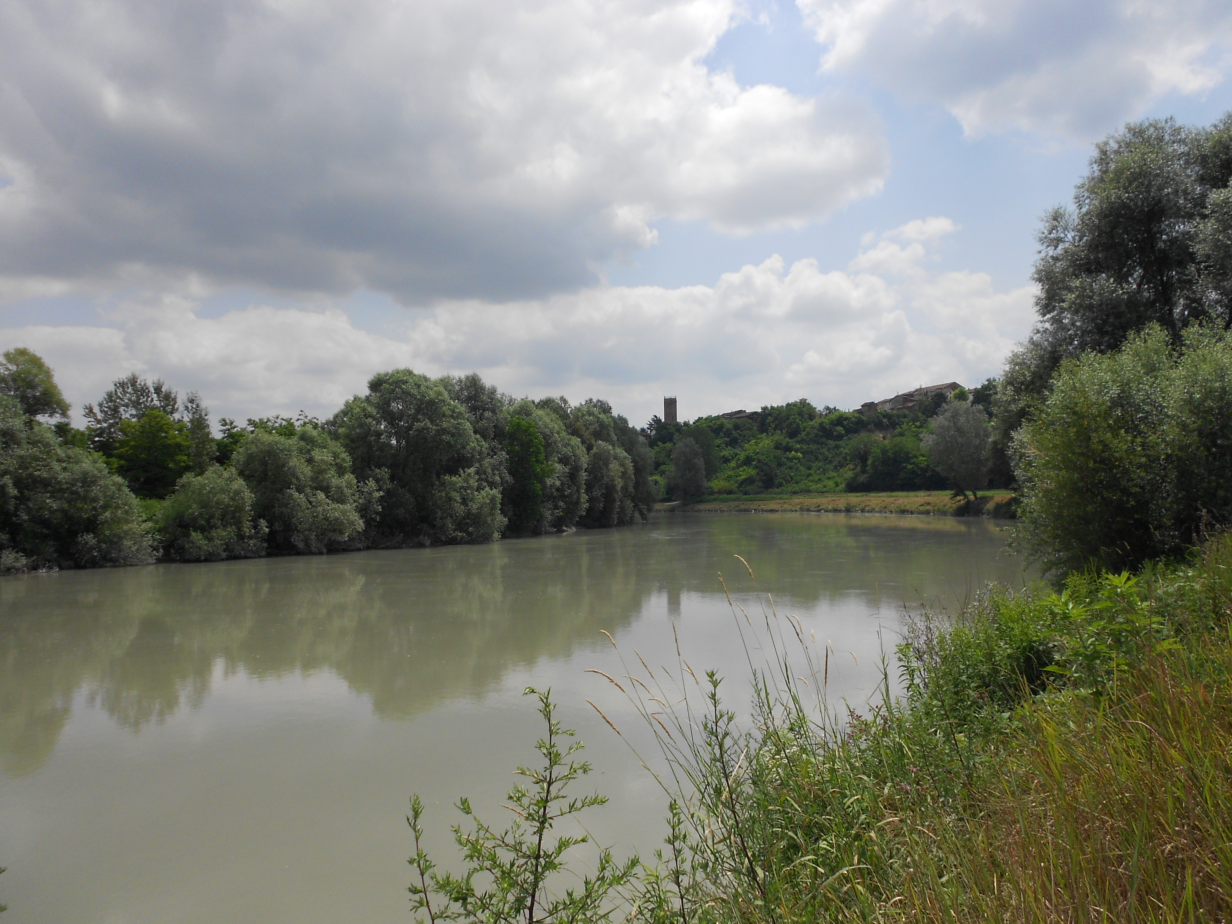 Tanaro river - Masio (AL) Italy